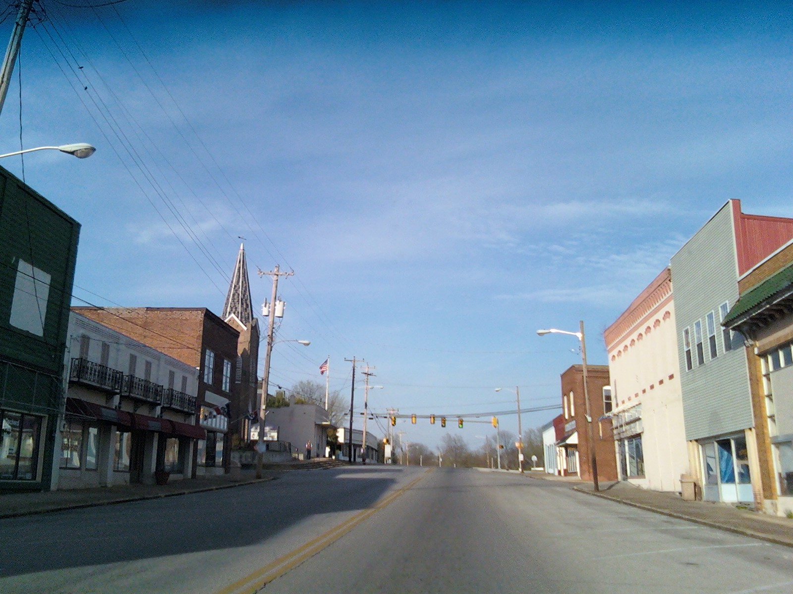 City image